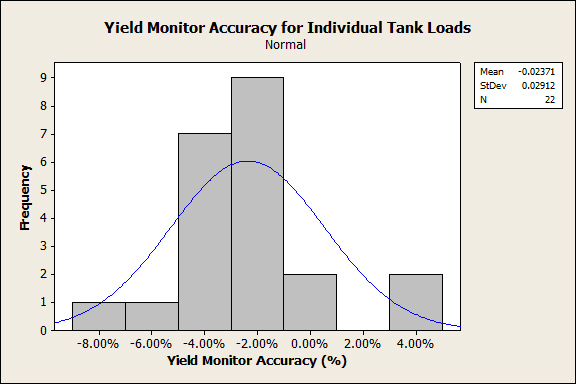 Histogram showing pass to pass accuracy of a grain yield monitor.